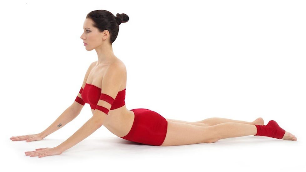 Bhujangasana by Nina Mel, Yoga Teacher